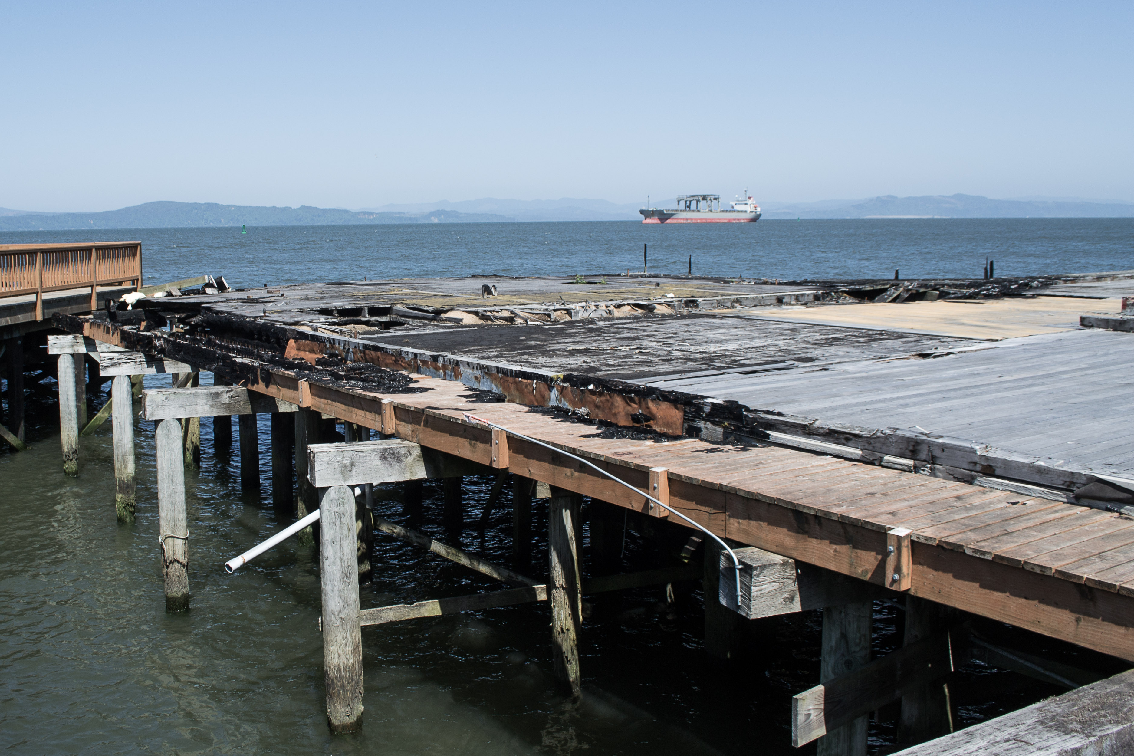 Nothing remains of the Cannery Cafe after a 2010 fire in Astoria, Oregon